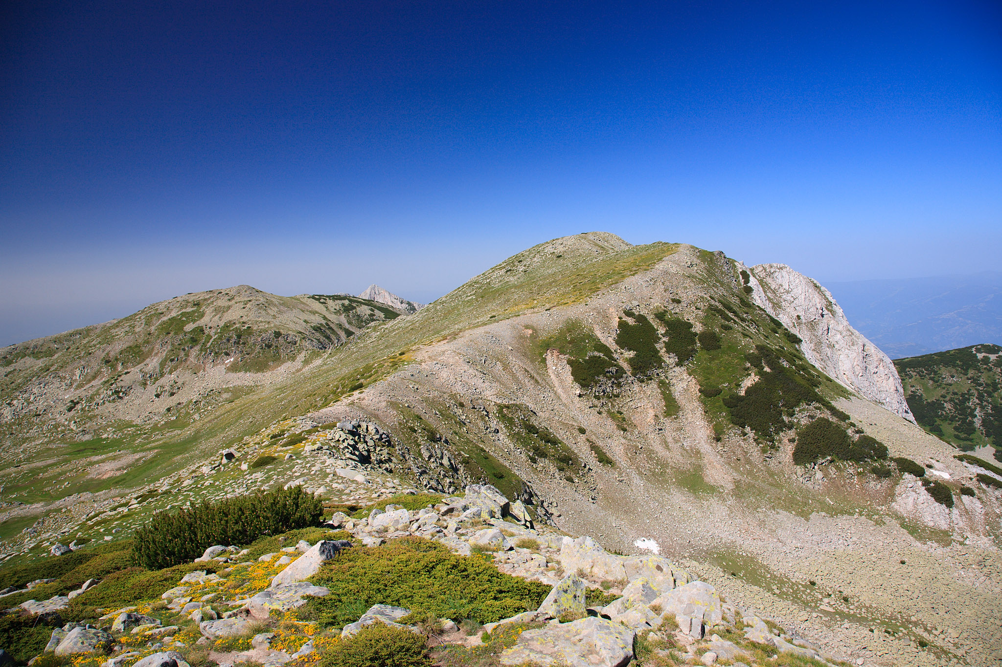 Gergiitsa summit in Northern Pirin mountain, Bulgaria